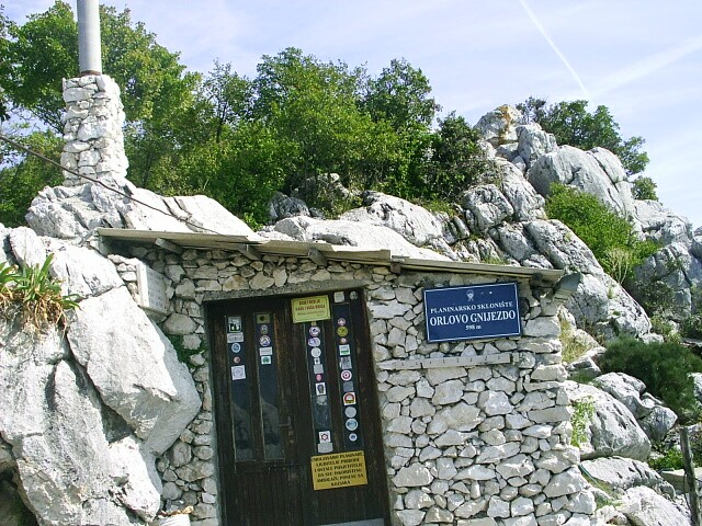 A mountain hut near the top of Kozjak hills, Croatia